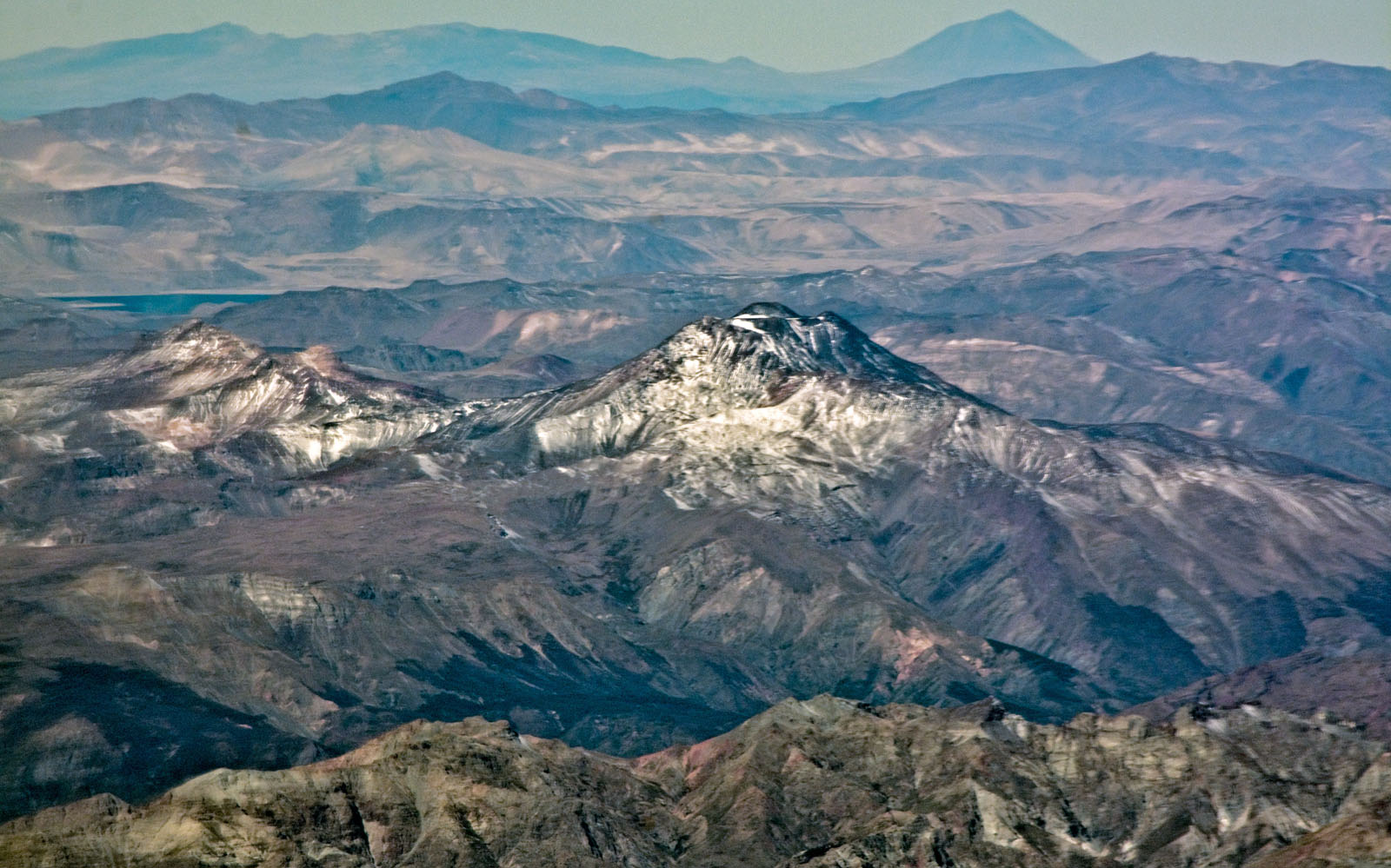 Aerial photograph of the San Pedro Pellado composite volcano. Maule region, Chile. Elevation: 6.145 m